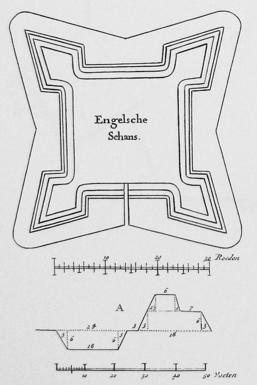 Fortification built by English troops during the Siege of Grol (Groenlo) by Frederick Henry in 1627